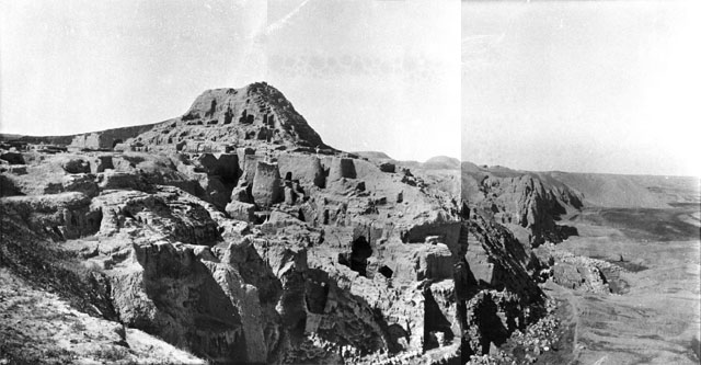 Assur, photoed by Gertrude Bell, in 1909. [1]